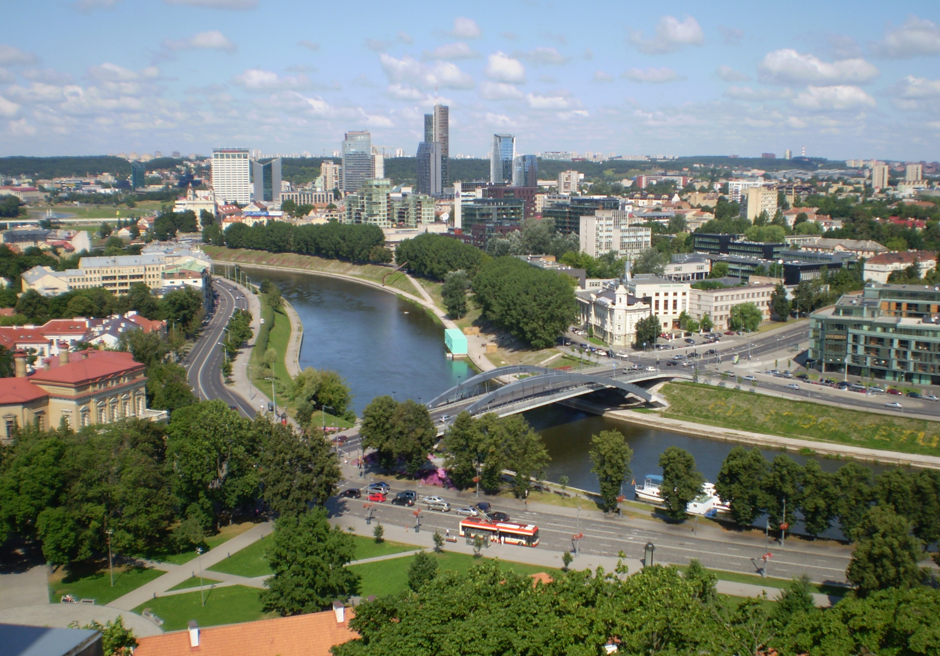 A view to Neris River in Vilnius, Lithuania.